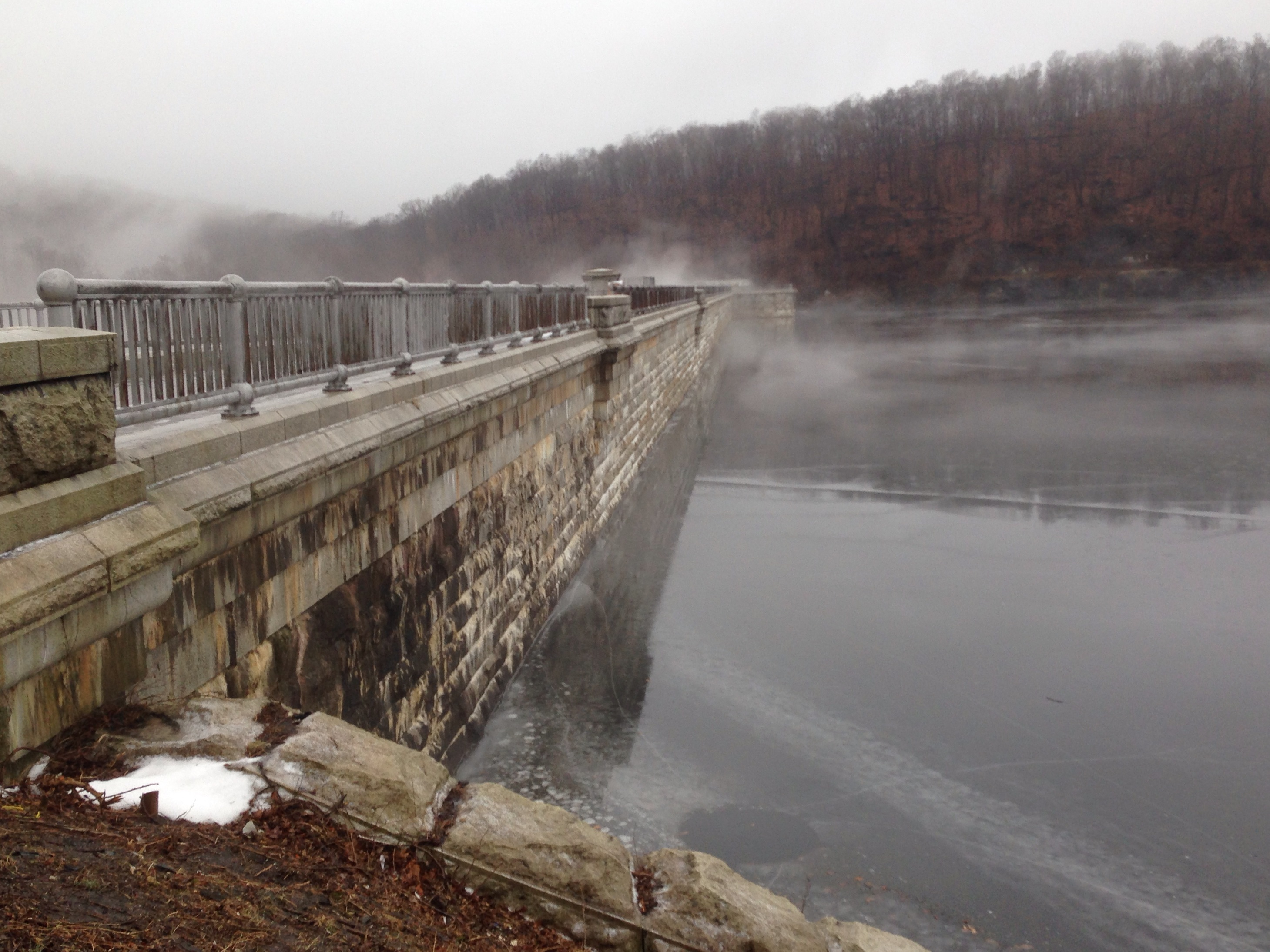 The wall of the New Croton Dam on the reservoir side